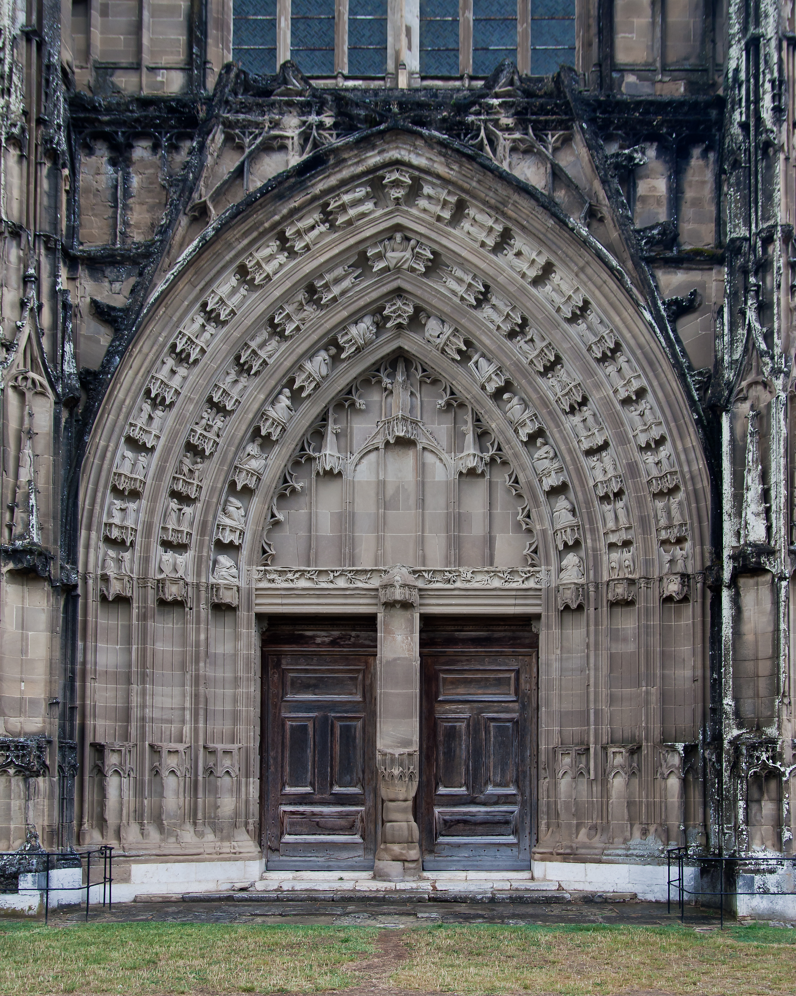 Main portal of the abbatial church of Saint-Antoine-l'Abbaye.